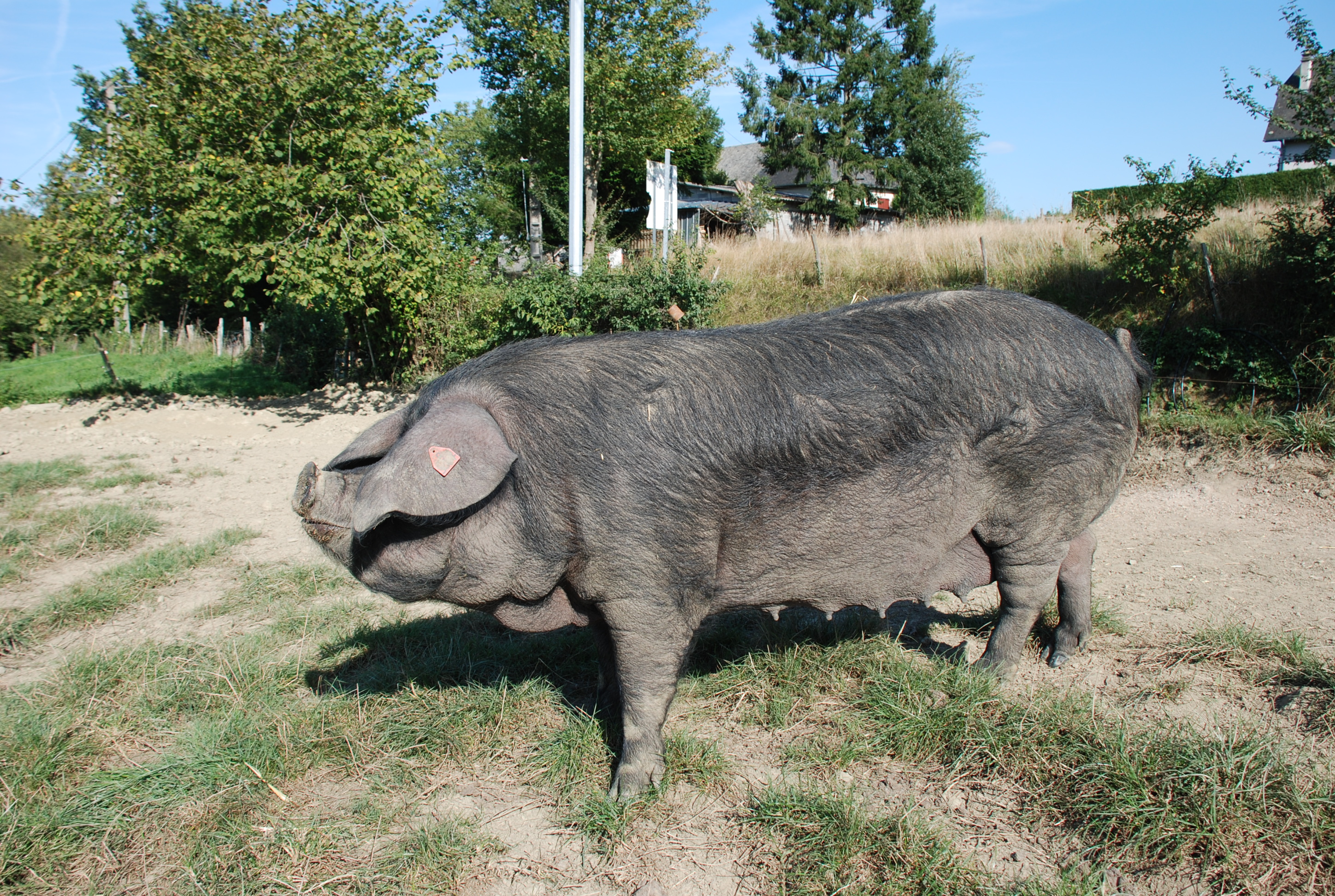 Sow from Porc gascon breed photographied in Arberet farm, Bonnemazon village, in the Baronnies (Hautes Pyrénées)